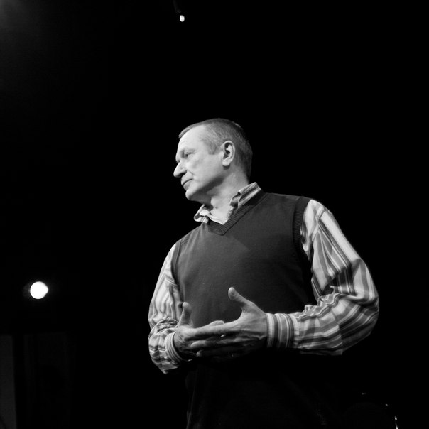 photo from еру theatrical rehearsal